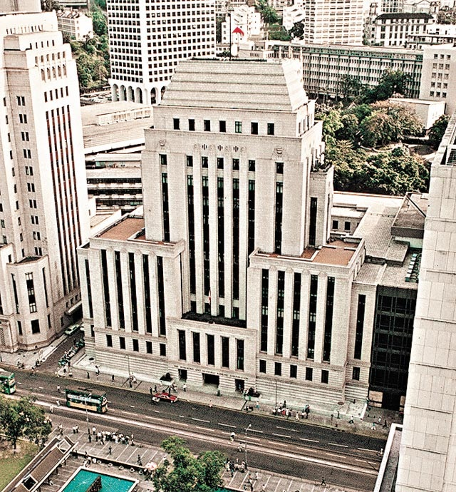 The third generation of HSBC building was located at the same location of the fourth one. It was in use from 1935 to 1981, and used as the government headquarter during the Japanese reign. The building was also the first with air-conditioning in the Far East at that time.